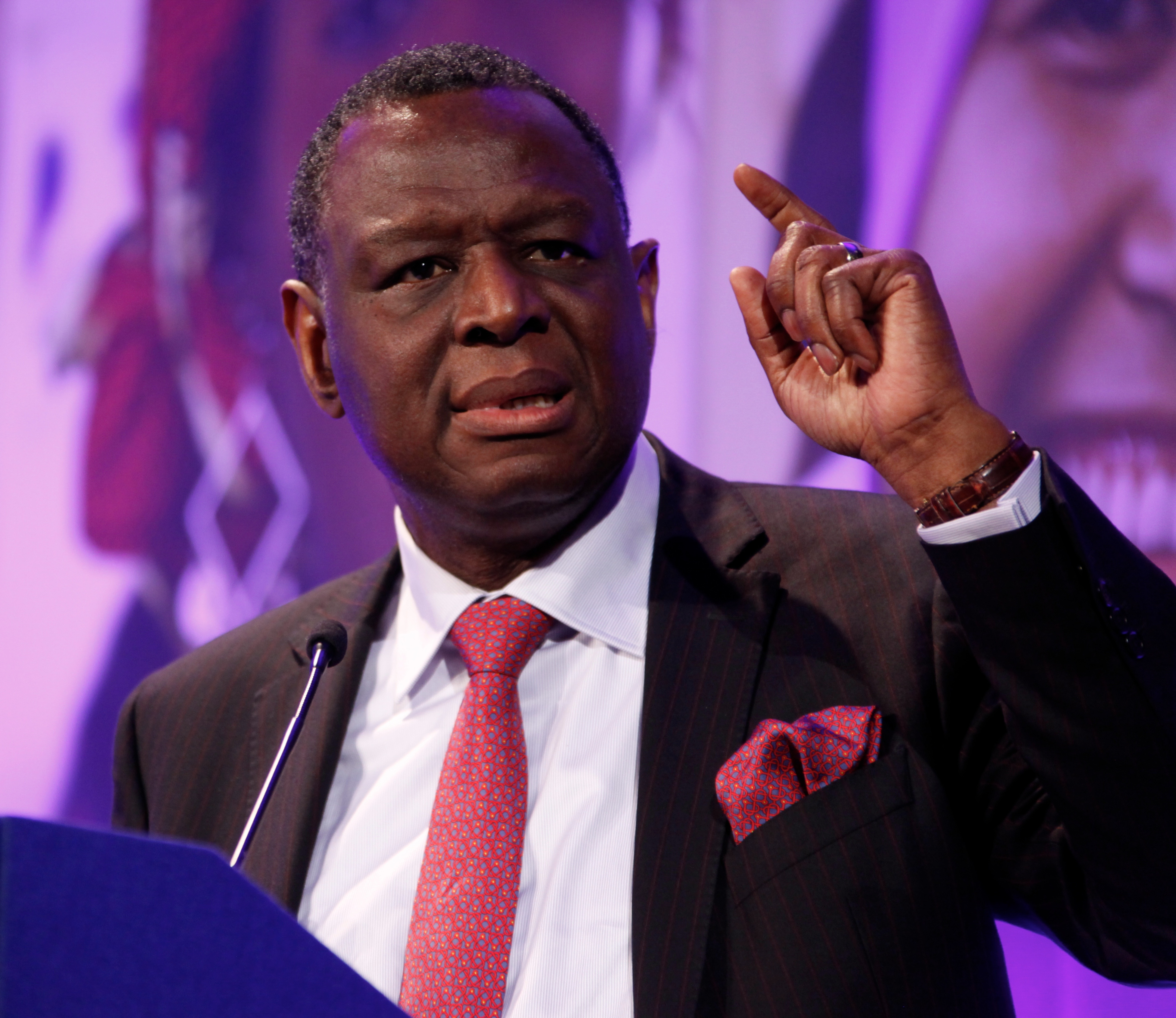 London, 11th July 2012. Dr. Babatunde Osotimehin, Executive Director of UNFPA (United Nations Population Fund), speaking at the London Summit on Family Planning. Picture: Russell Watkins/Department for International Development Terms of use This image is posted under a Creative Commons - Attribution Licence, in accordance with the Open Government Licence. You are free to embed, download or otherwise re-use it, as long as you credit the source as Russell Watkins/Department for International Development.